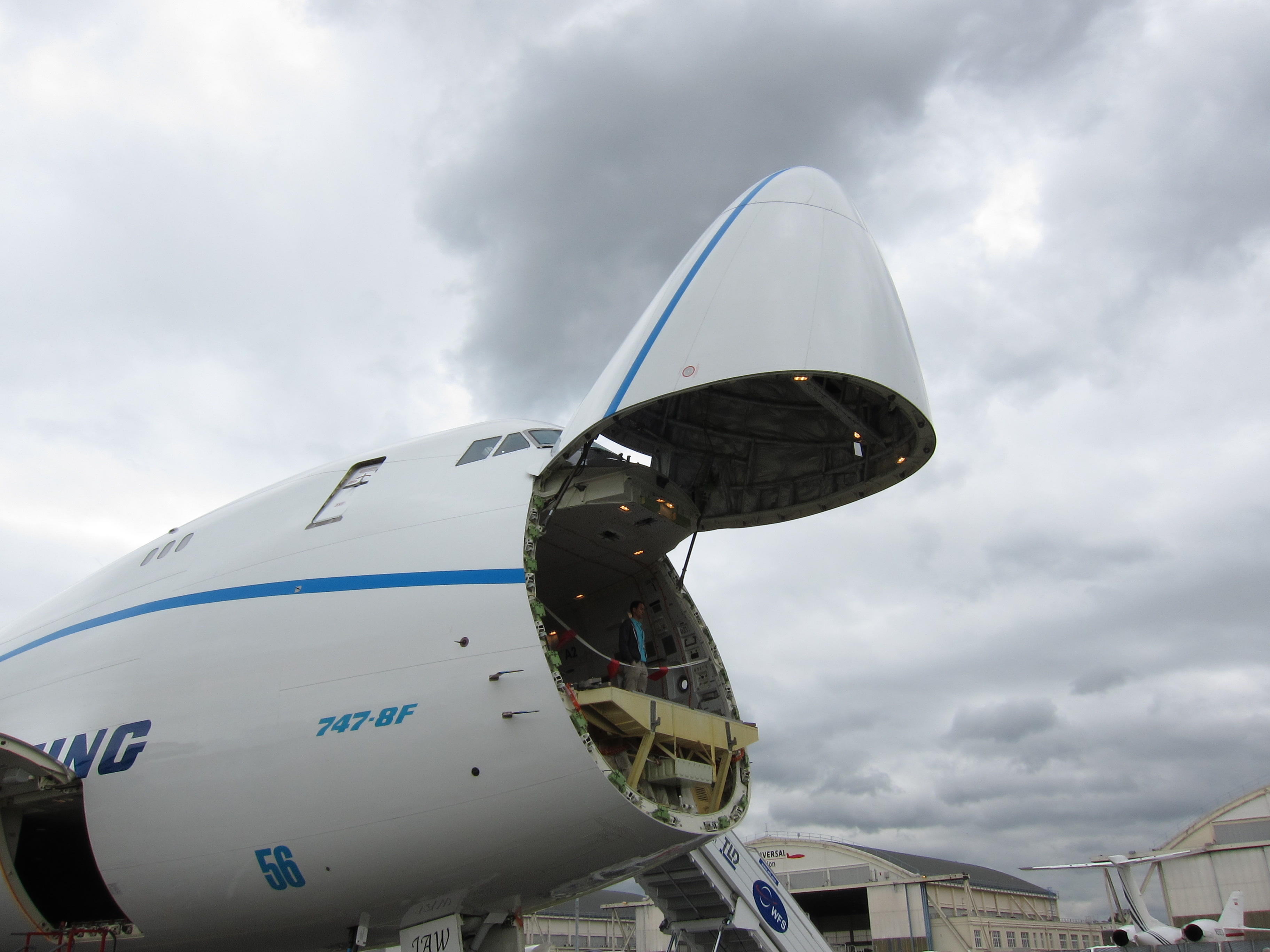 The nose cargo door of a Boeing 747-8F freighter shown open during static display at the 2011 Paris Air Show. The lower deck front cargo door, also open, is visible in the bottom left corner.